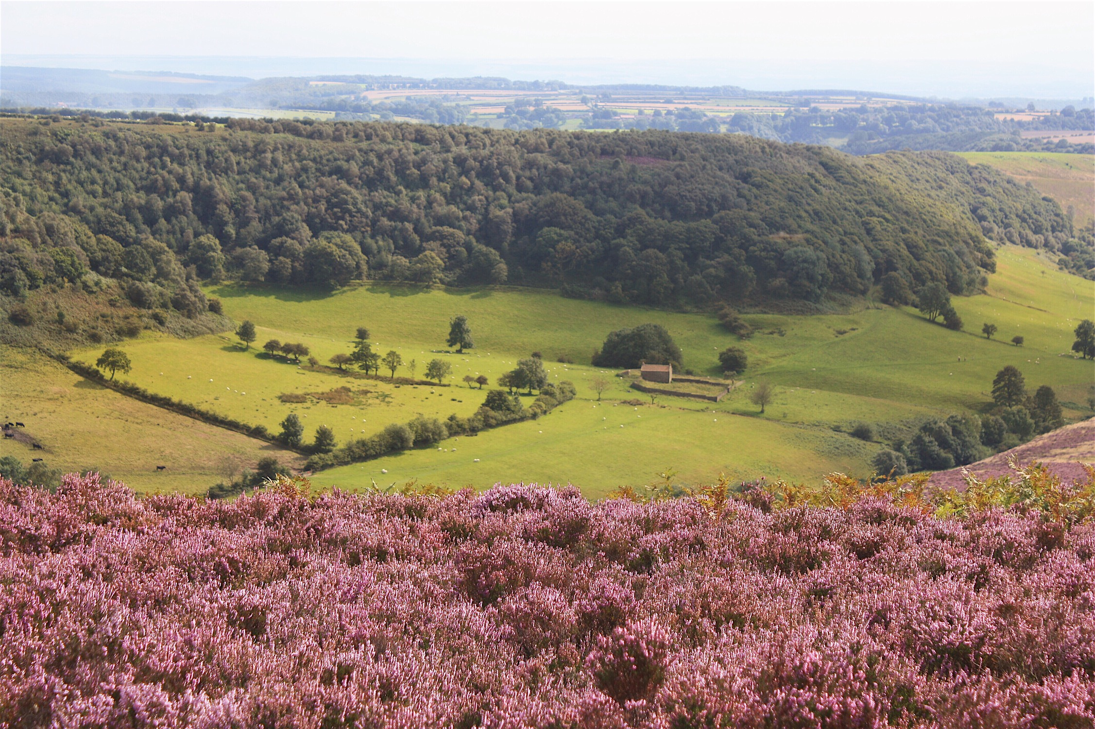 Hole of Horcum, North Yorkshire. Photo taken from the North in August with flowering heather in the foreground.